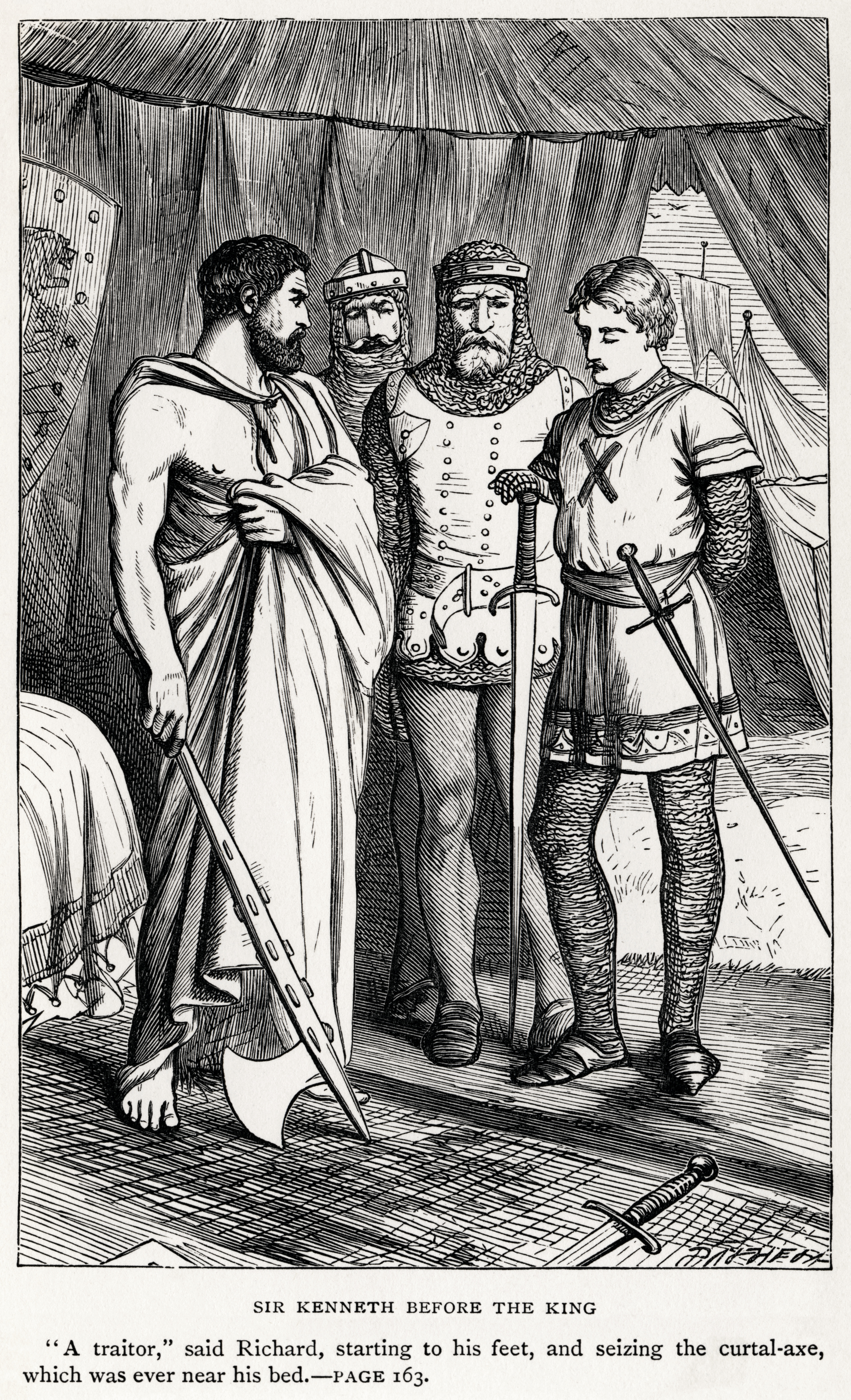 "Sir Kenneth before the King", by the Dalziel Brothers, after Sir Walter Scott's The Talisman From left to right: King Richard the Lionheart, Henry Neville, Thomas de Vaux, and Sir Kenneth. (Neville and de Vaux are arguably the other way around, but as de Vaux steps forwards between Richard and Kenneth a moment after the quote, this order seems more likely)